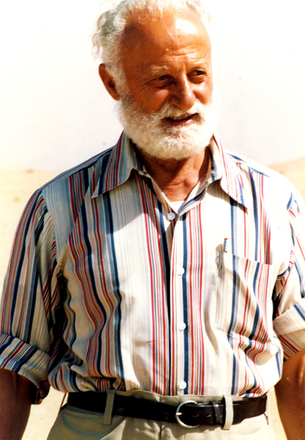 Photograph of Wahbi al-Hariri-Rifai, dated January 06, 1981